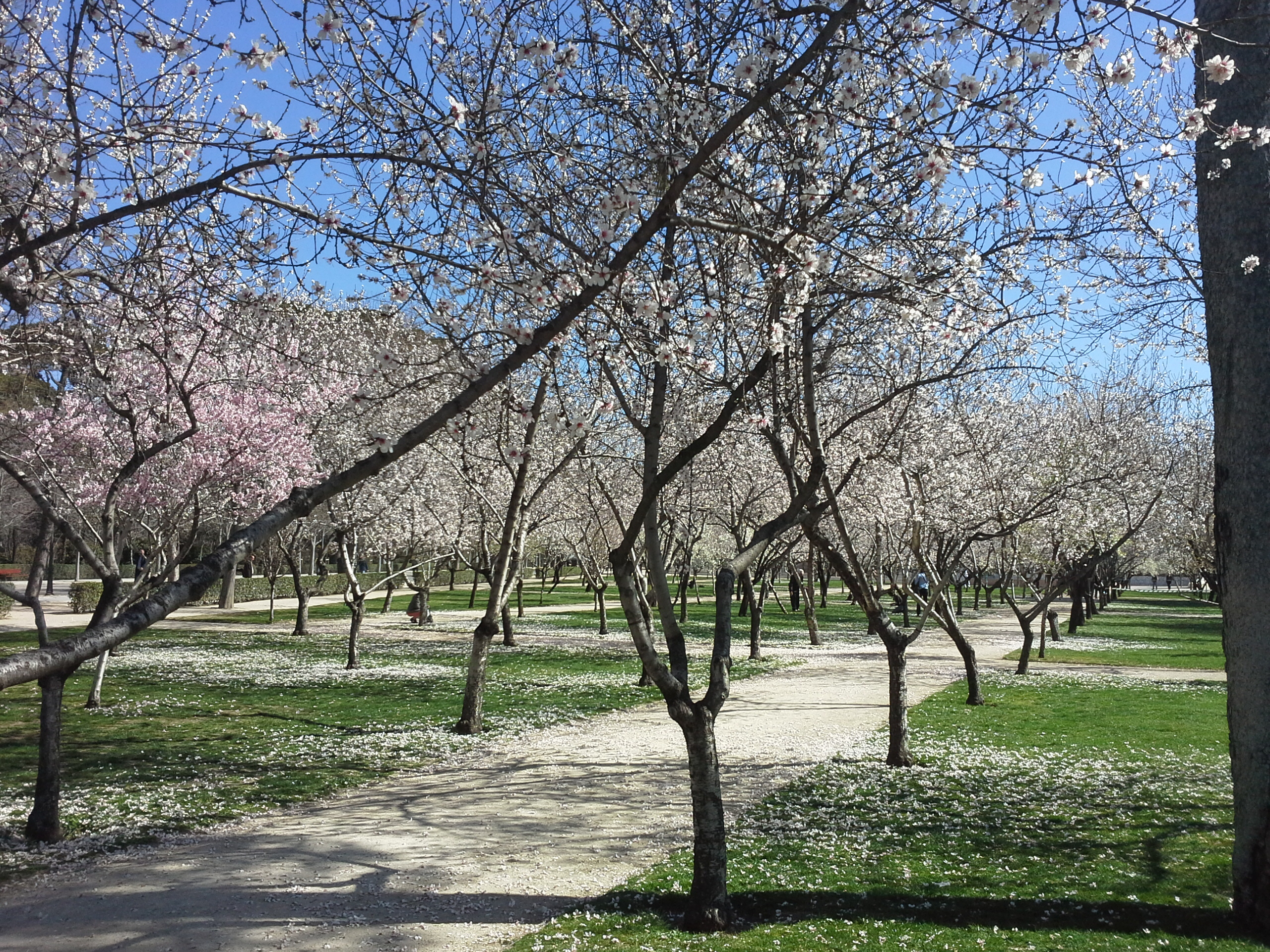 Prunus dulcis at Retiro Park